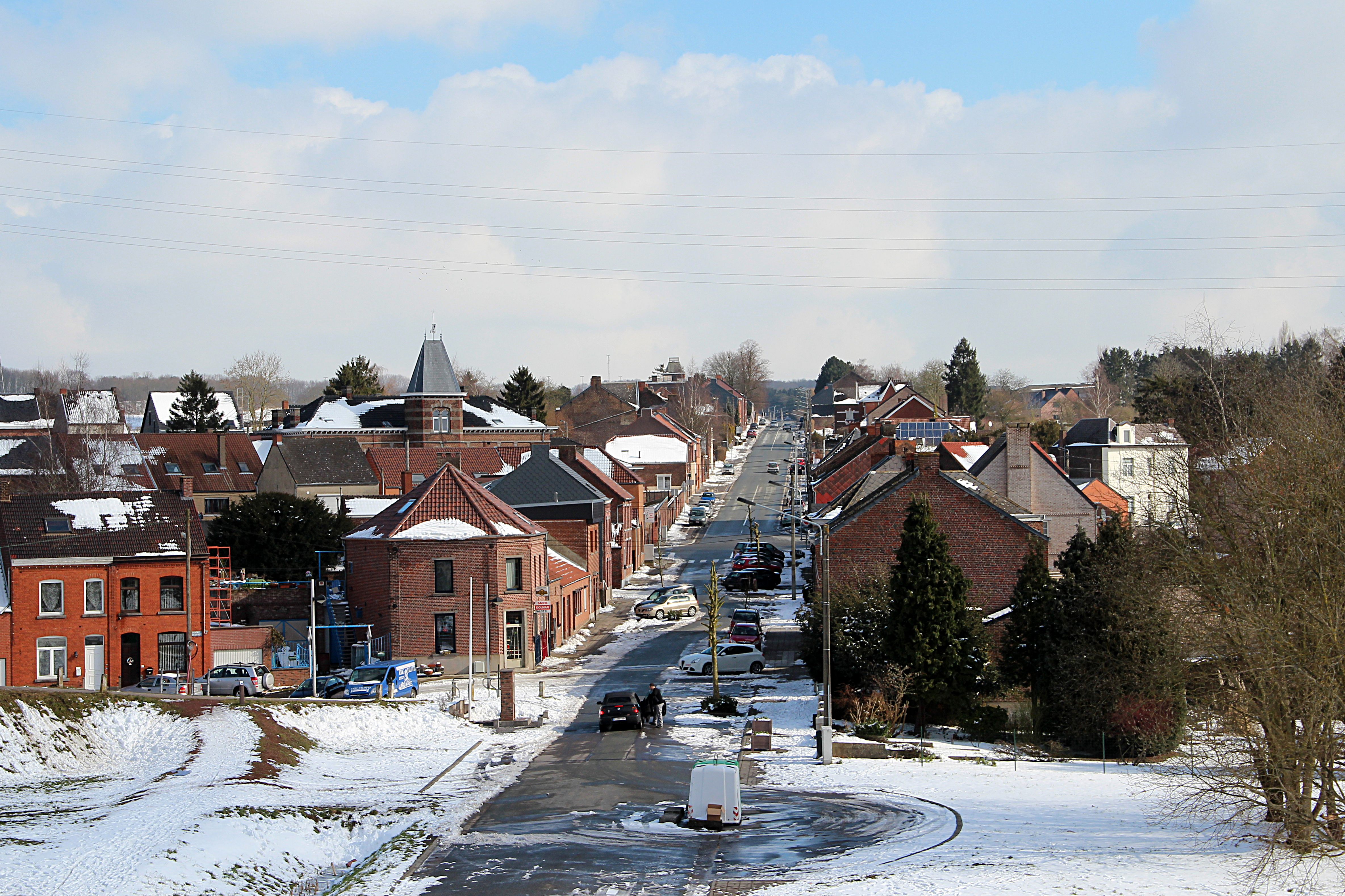 Ville-sur-Haine (Belgium), the chaussée de Mons.